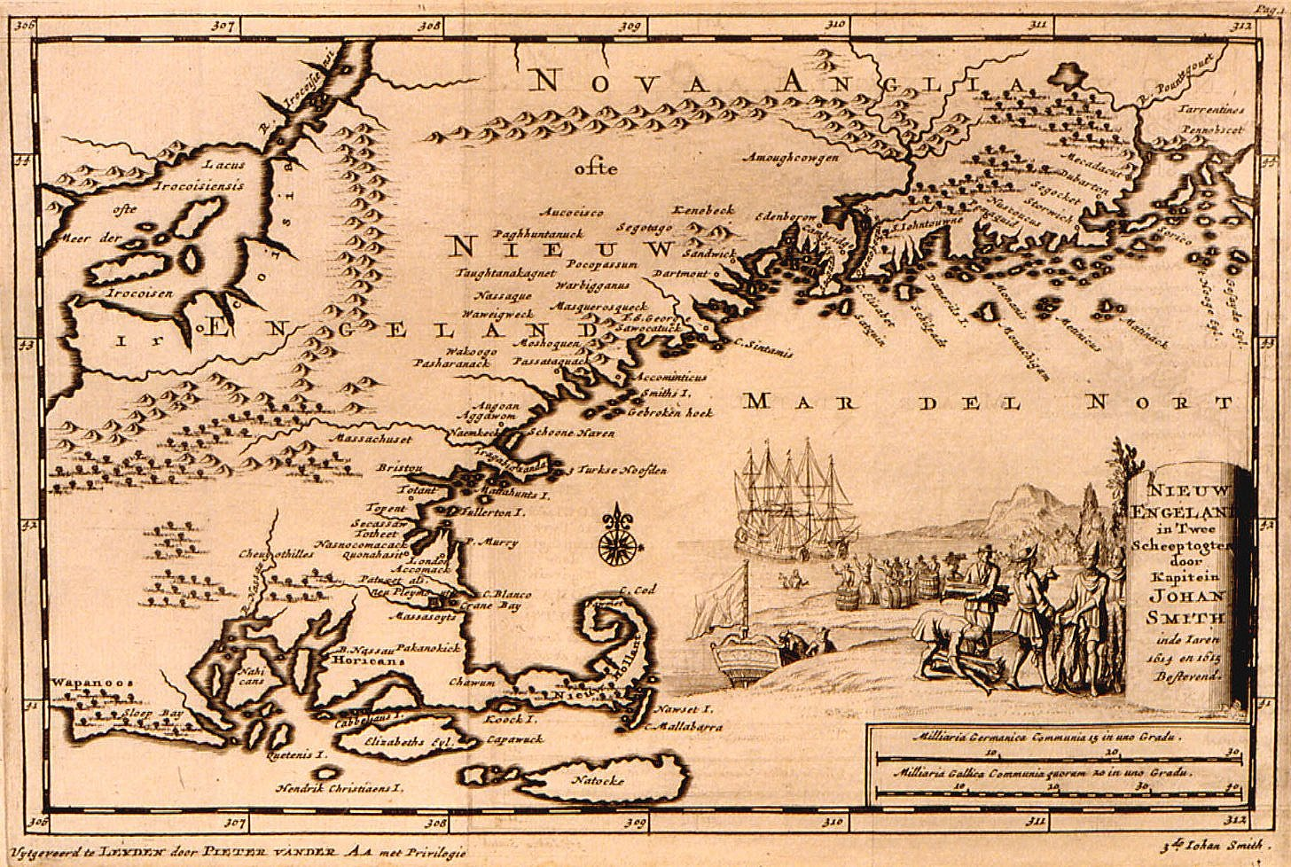 Historical map of New England